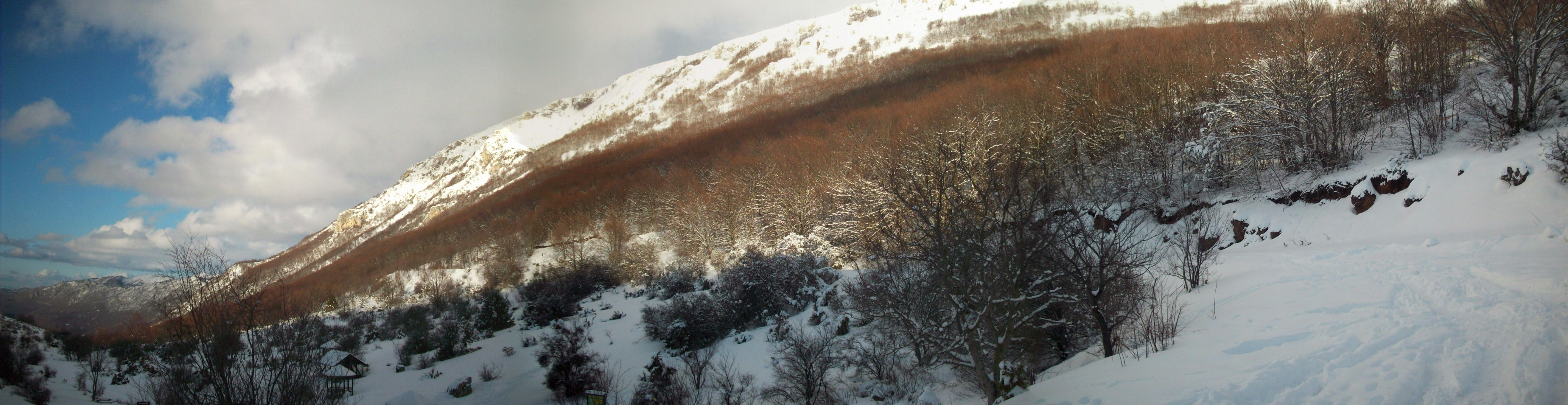 Galicica - view from "Korita".